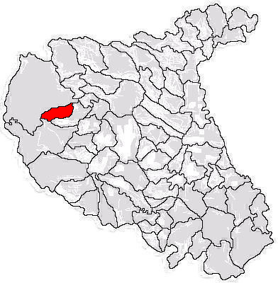 Map of limits of commune in Vrancea County